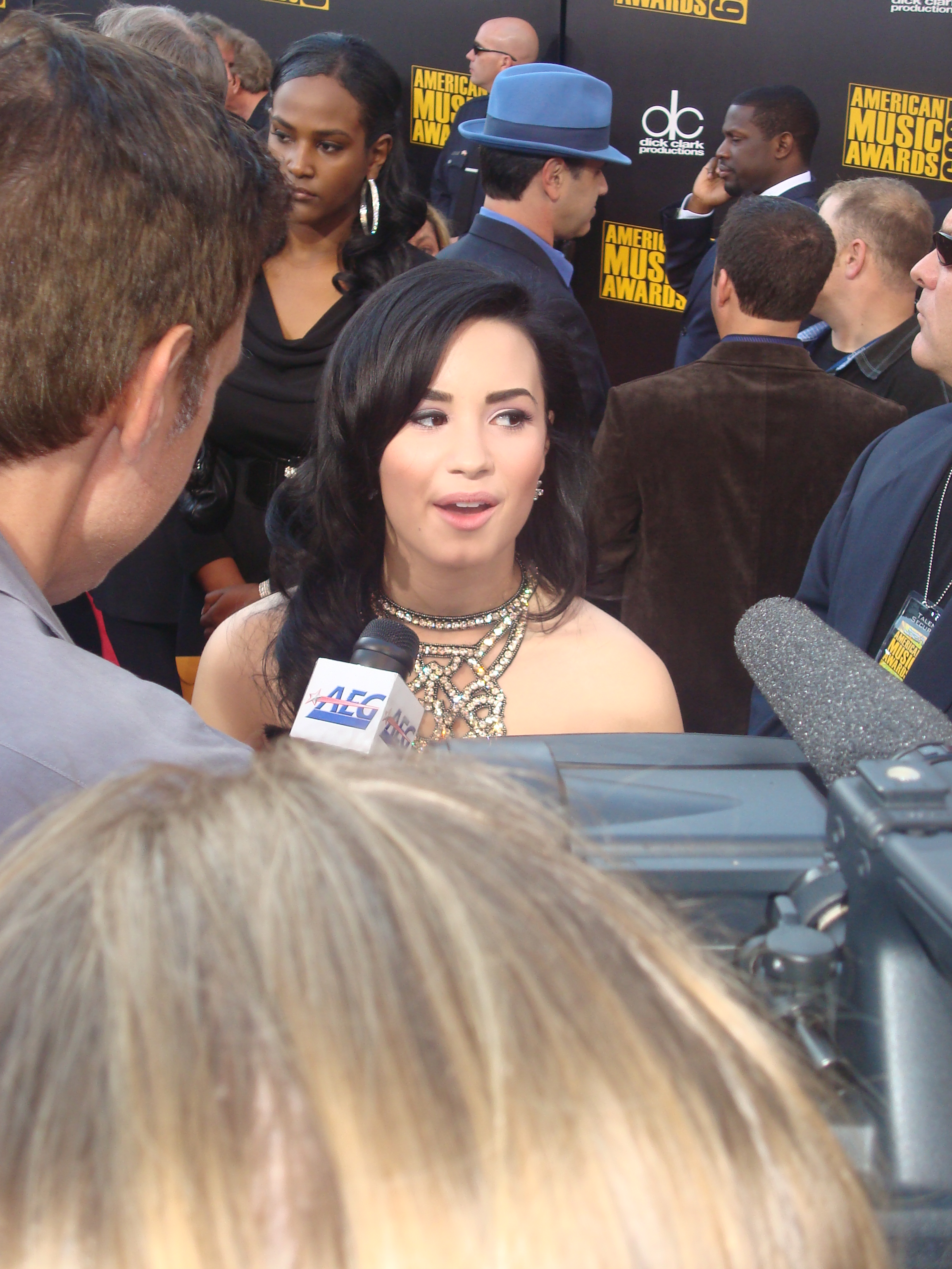 Demi Lovato at the 2009 American Music Awards Red Carpet